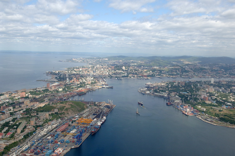 Zolotoy Rog